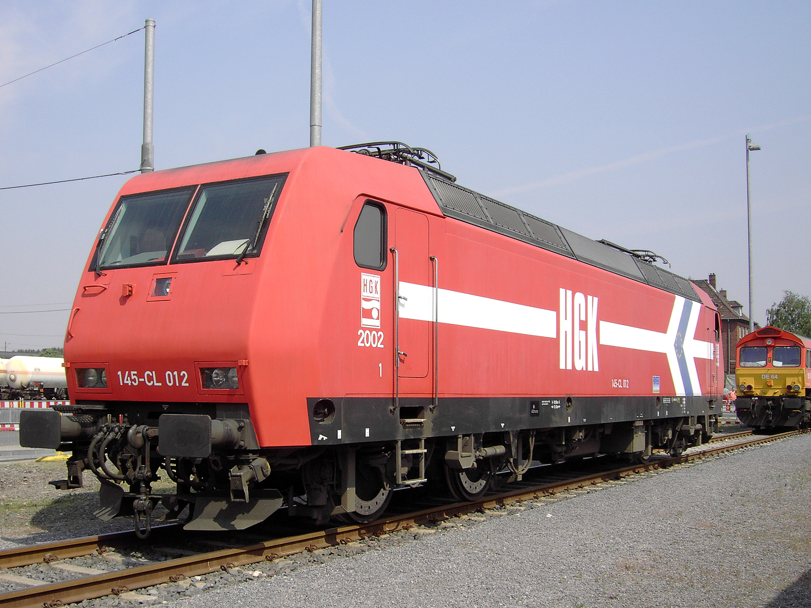 145-CL 012 (TRAXX) operated by German private railway HGK on display at Cologne-Godorf open day.